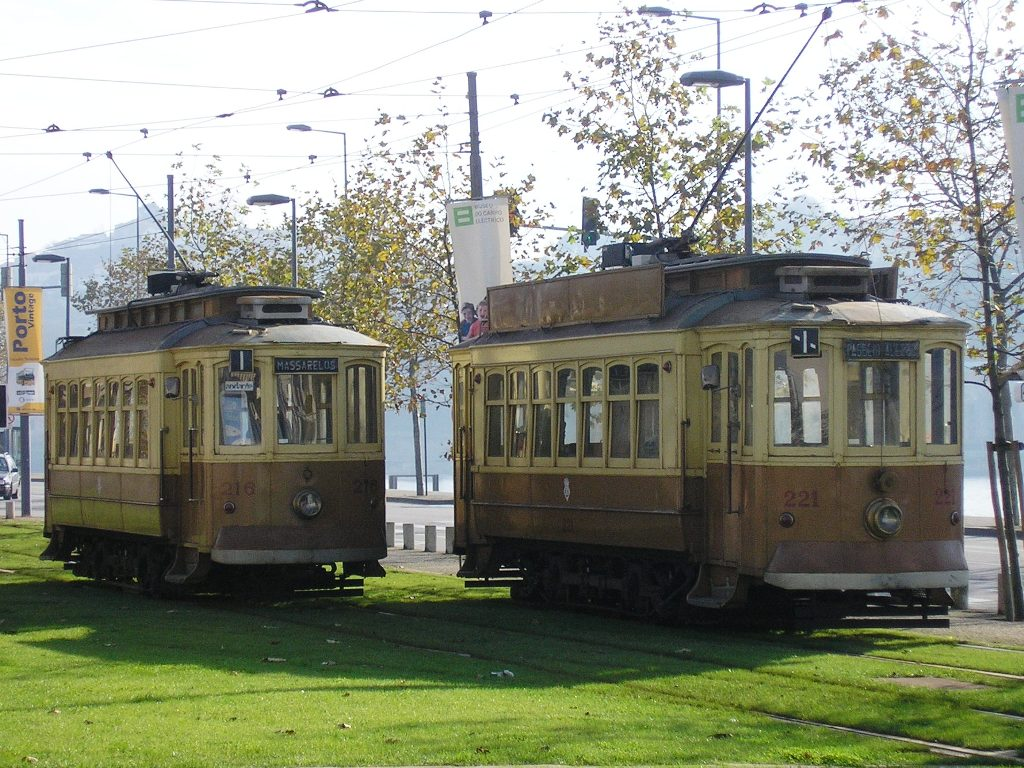 Tramways in Porto, Portugal.